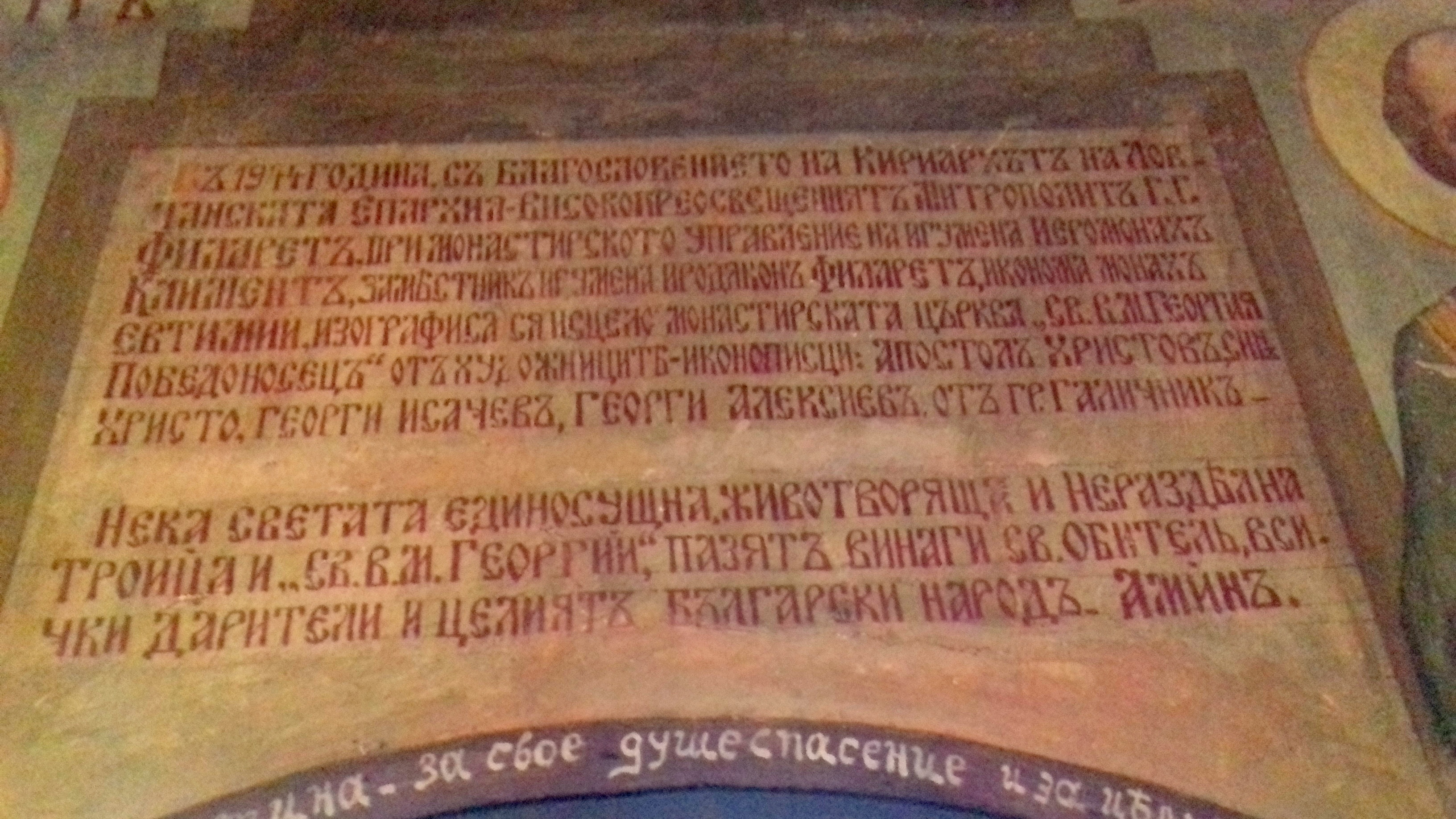 Glozhene Monastery Inscription